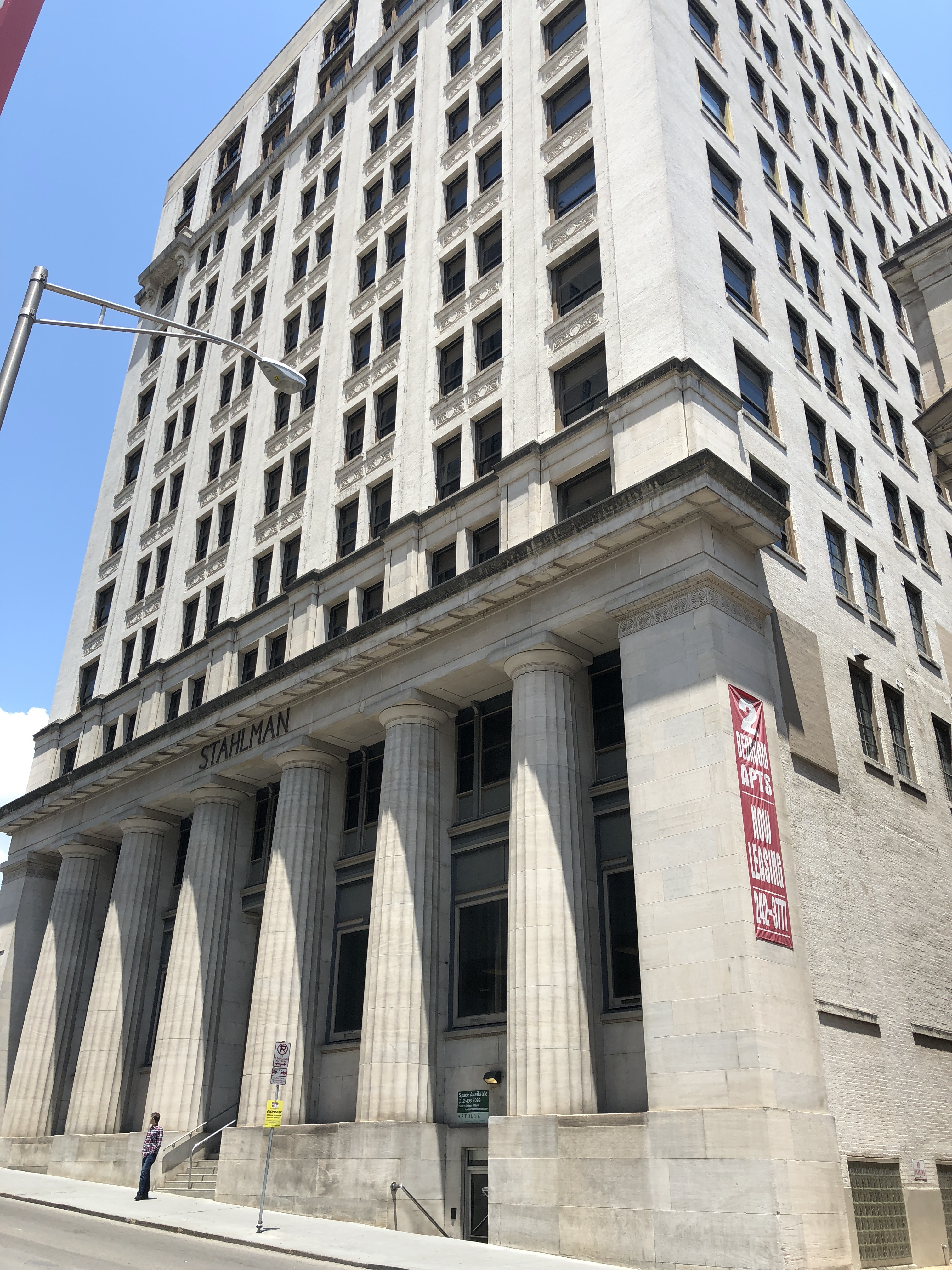 View of Nashville's Stahlman Building from Third Ave N, 2018